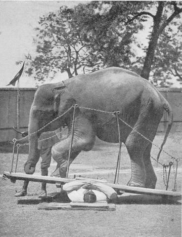 Photograph of Bhabendra Mohan Saha, carrying an elephant on his chest.